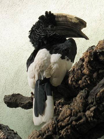 Description: Black-and-white-casqued Hornbill - Source: own work - Location: Bronx Zoo, New York - Author: self, User:Stavenn